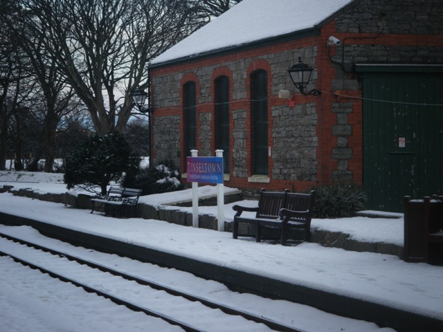 Castletown station in the snow with Tinseltown sign